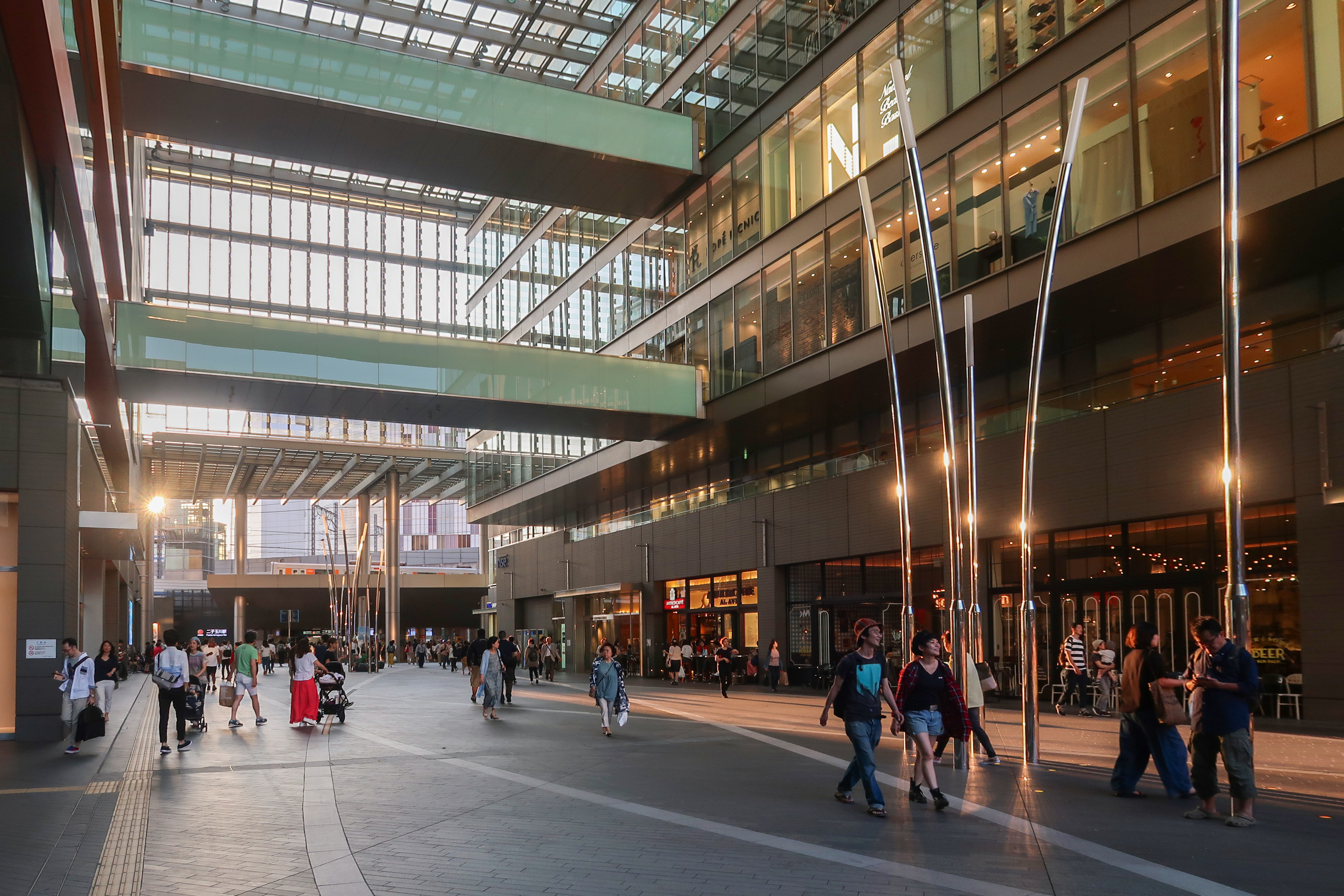 Futako-Tamagawa Rise Shopping Center Town Front Atrium